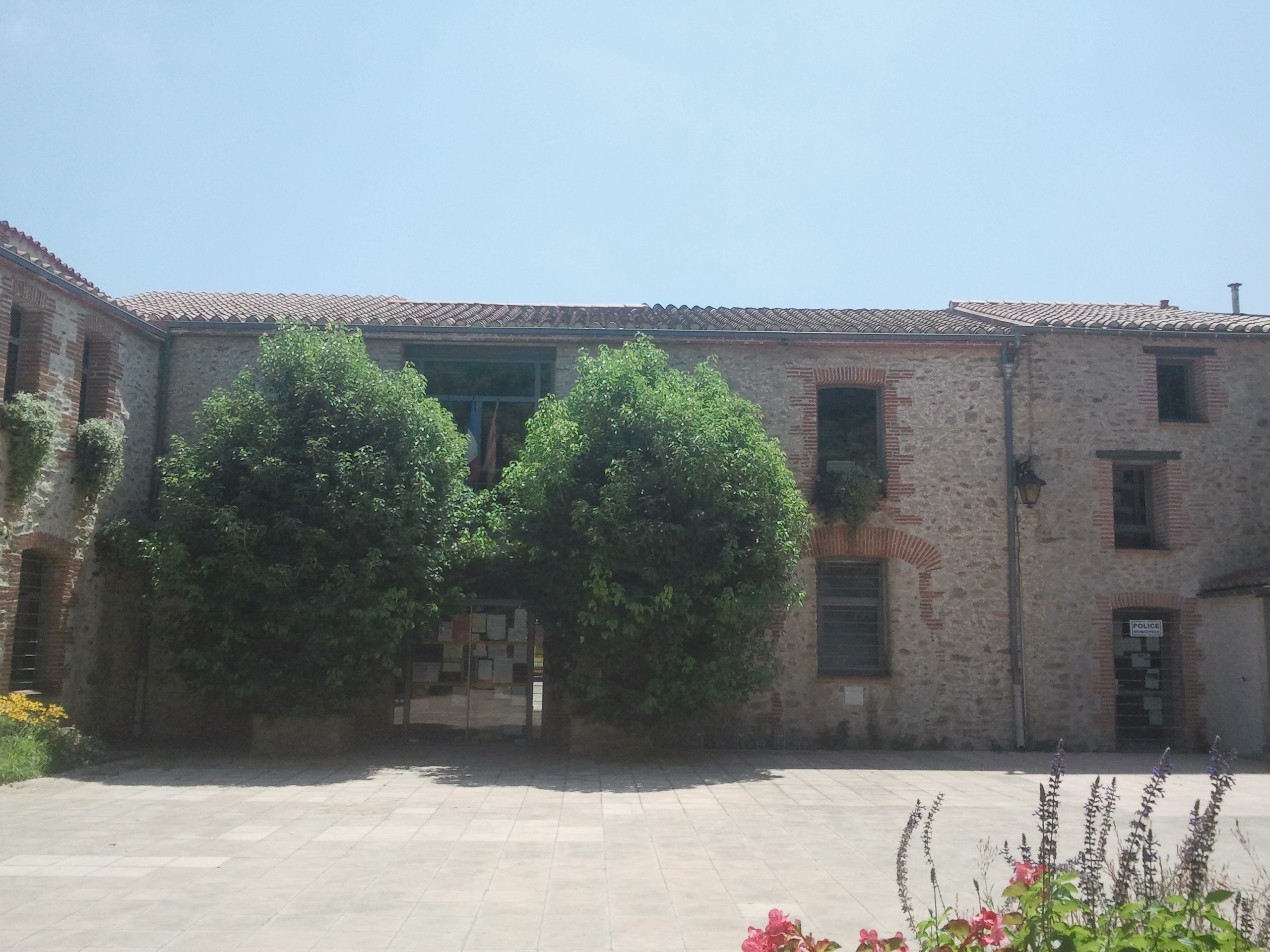 Town hall of Saint-André